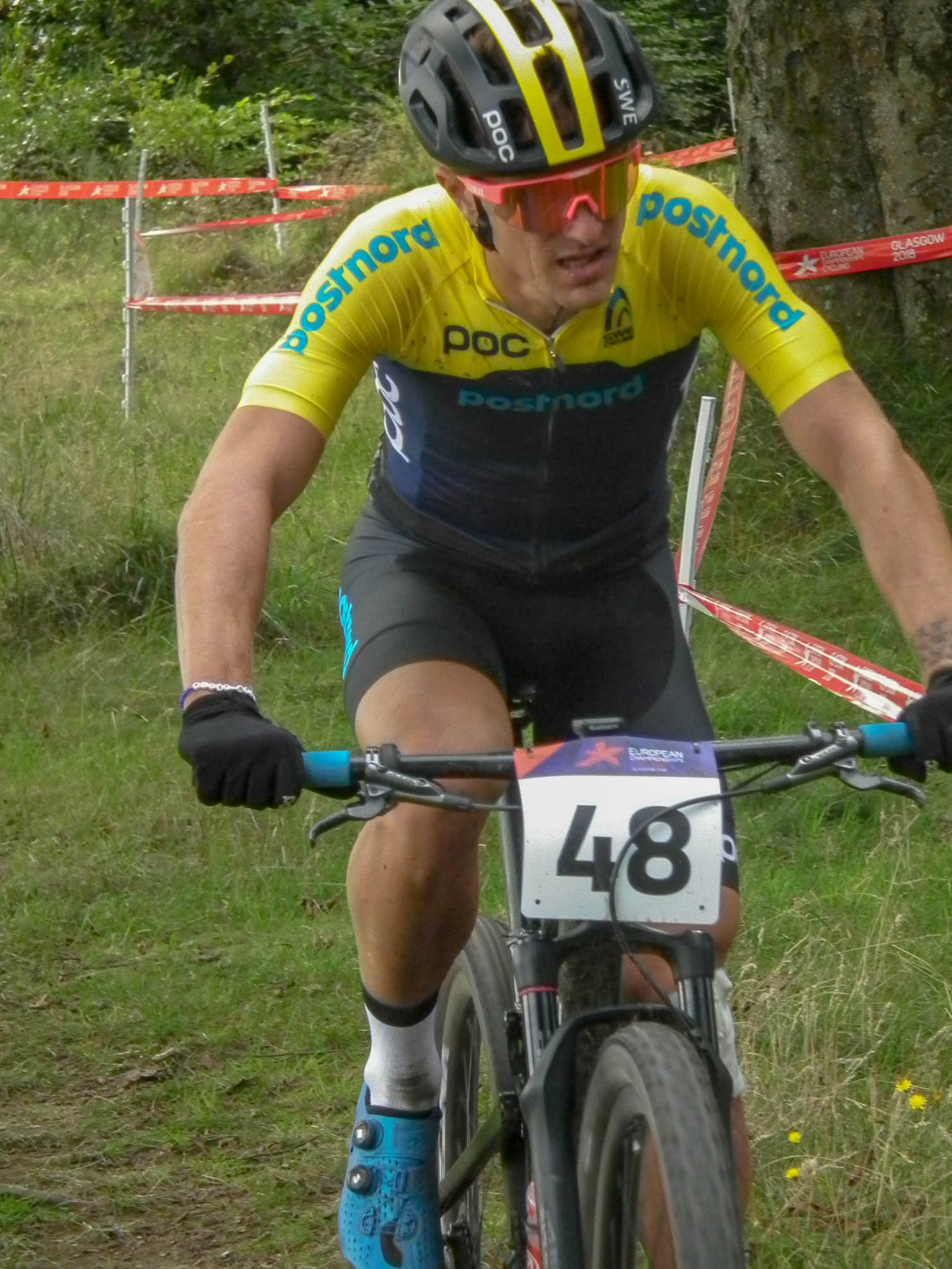 2018 European Mountain Bike Championships